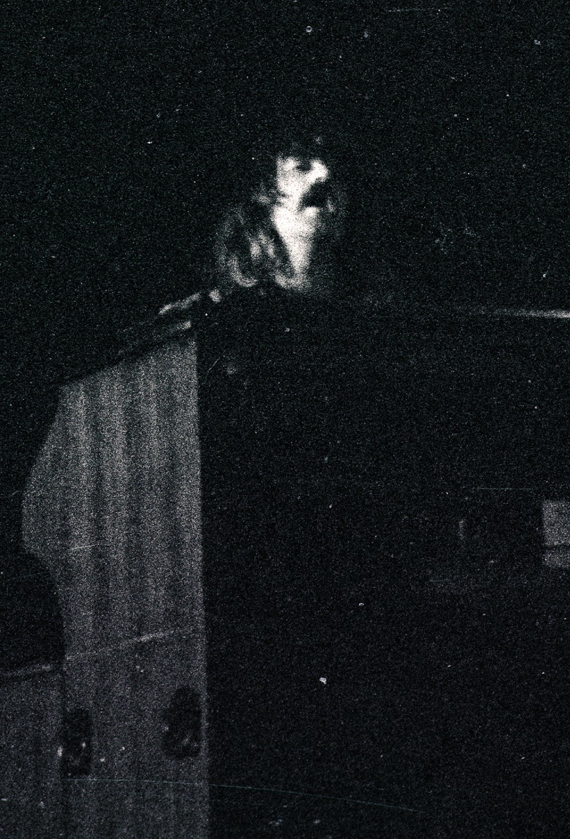 Deep Purple, 01. Dezember, 1970, Niedersachsenhalle, Germany